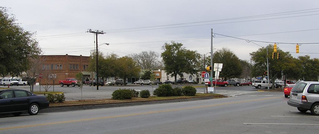 Richard Chambers, photographer, image taken 02/21/2007 while stopping in Metter showing the downtown area of Matter.